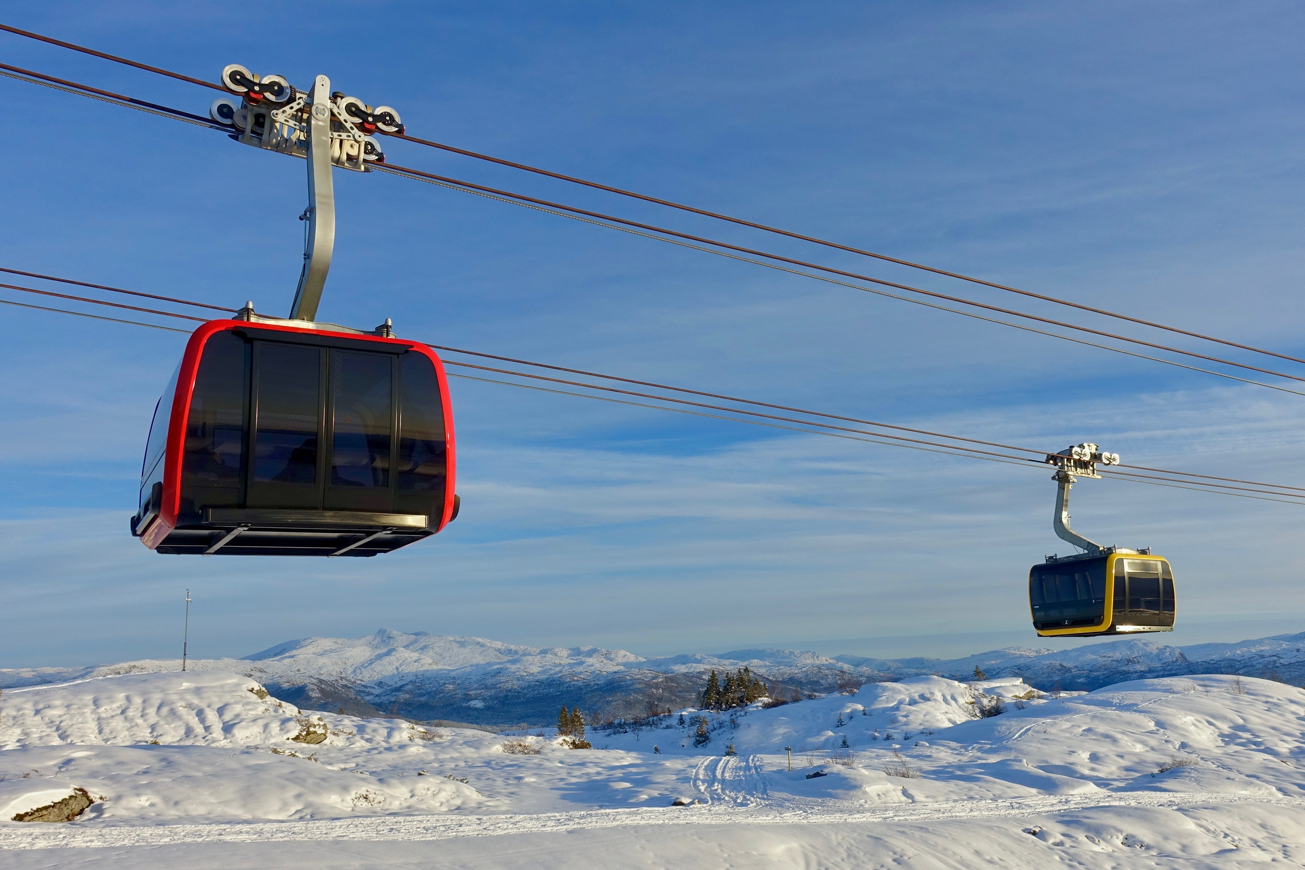 Gondola cabins on a cableway at the top station of the Voss Gondol, an aerial passenger lift (gondolheis, taubane) opened in 2019 in the small town of Vossevangen in Voss municipality in the western part of Norway. The gondola lift goes from the Voss Railway Station to the summit of Hangur (Hanguren, Hangurstoppen) mountain 820 metres above sea level, north of the town, with terminal platform for boarding and embarking, etc. Photo taken on November 20th, 2019. The early afternoon sunset colours the snowy landscape yellow and blue due to the low sun and long shadows.